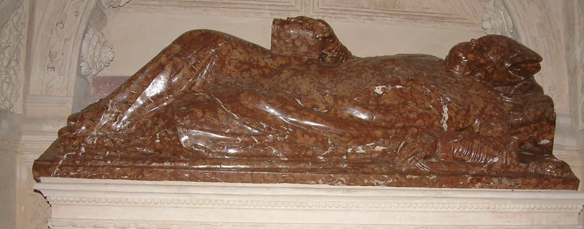 Tomb of bishop Benedykt Izbdbieński in Poznań Archcathedral Basilica